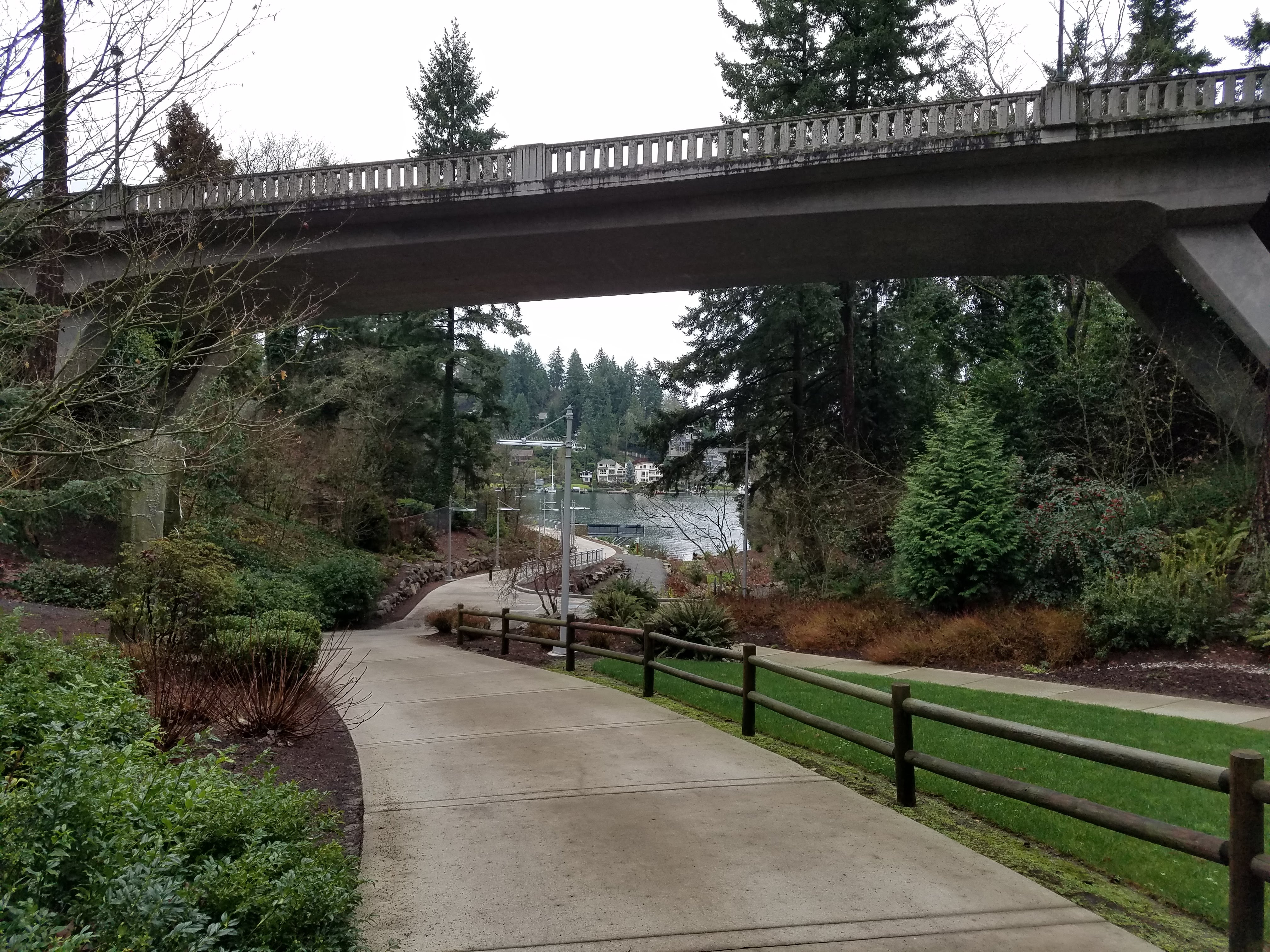 Walkway in Meydenbauer Bay Park heading south to the beach area. The walkway passes underneath Lake Washington Boulevard NE.